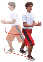 basketball